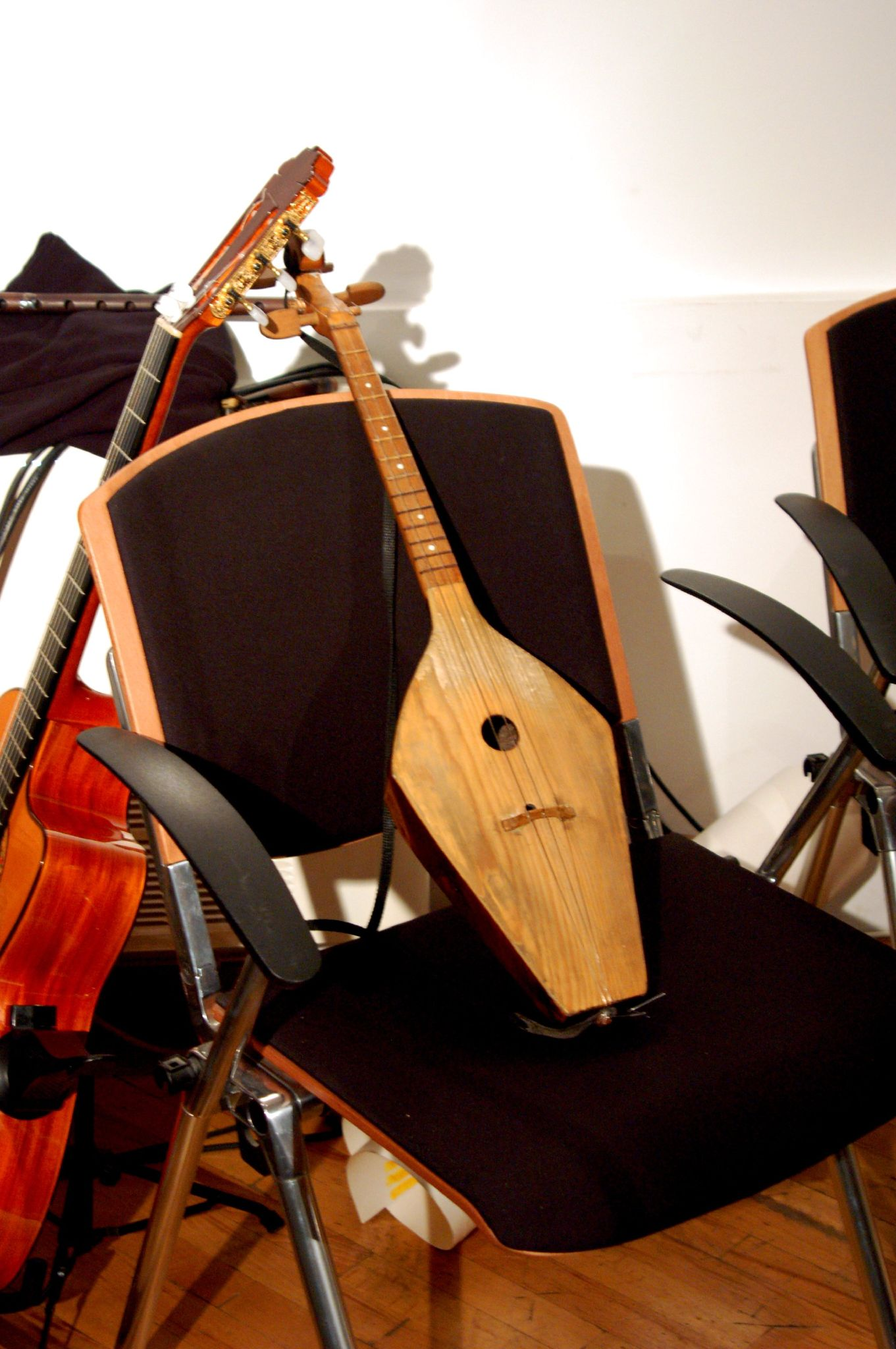 Georgian traditional instrument that is used along with a guitar, base and other western instruments by The Shin.